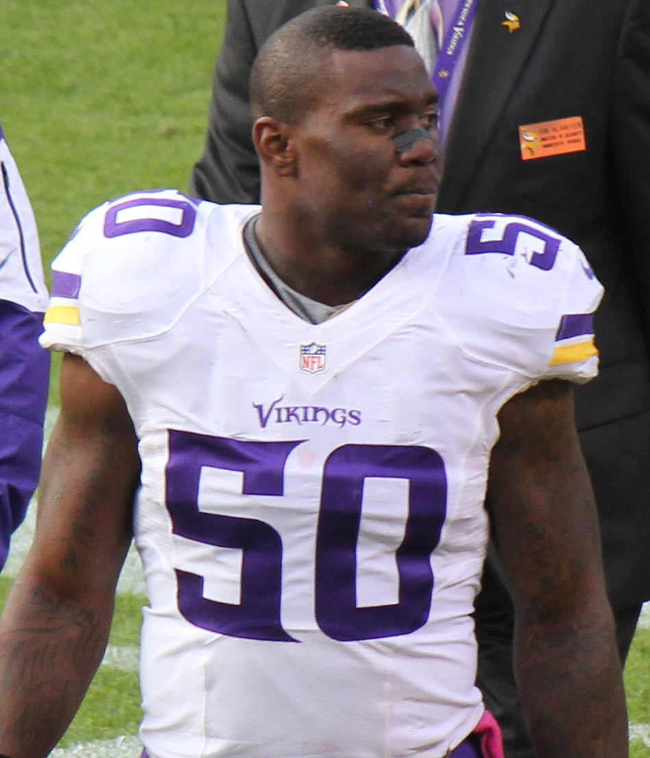 Gerald Hodges, a player on the National Football League.